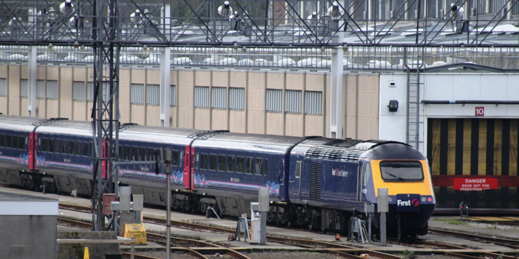 A spare High Speed Train set with power car 43026 stands in the carriage sidings at Laira, Plymouth.